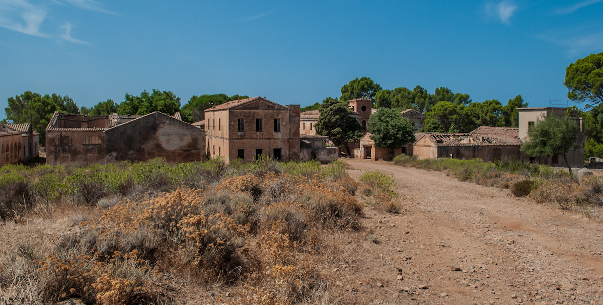 Villaggio Asproni - Gonnesa (Sardinia - Italy)